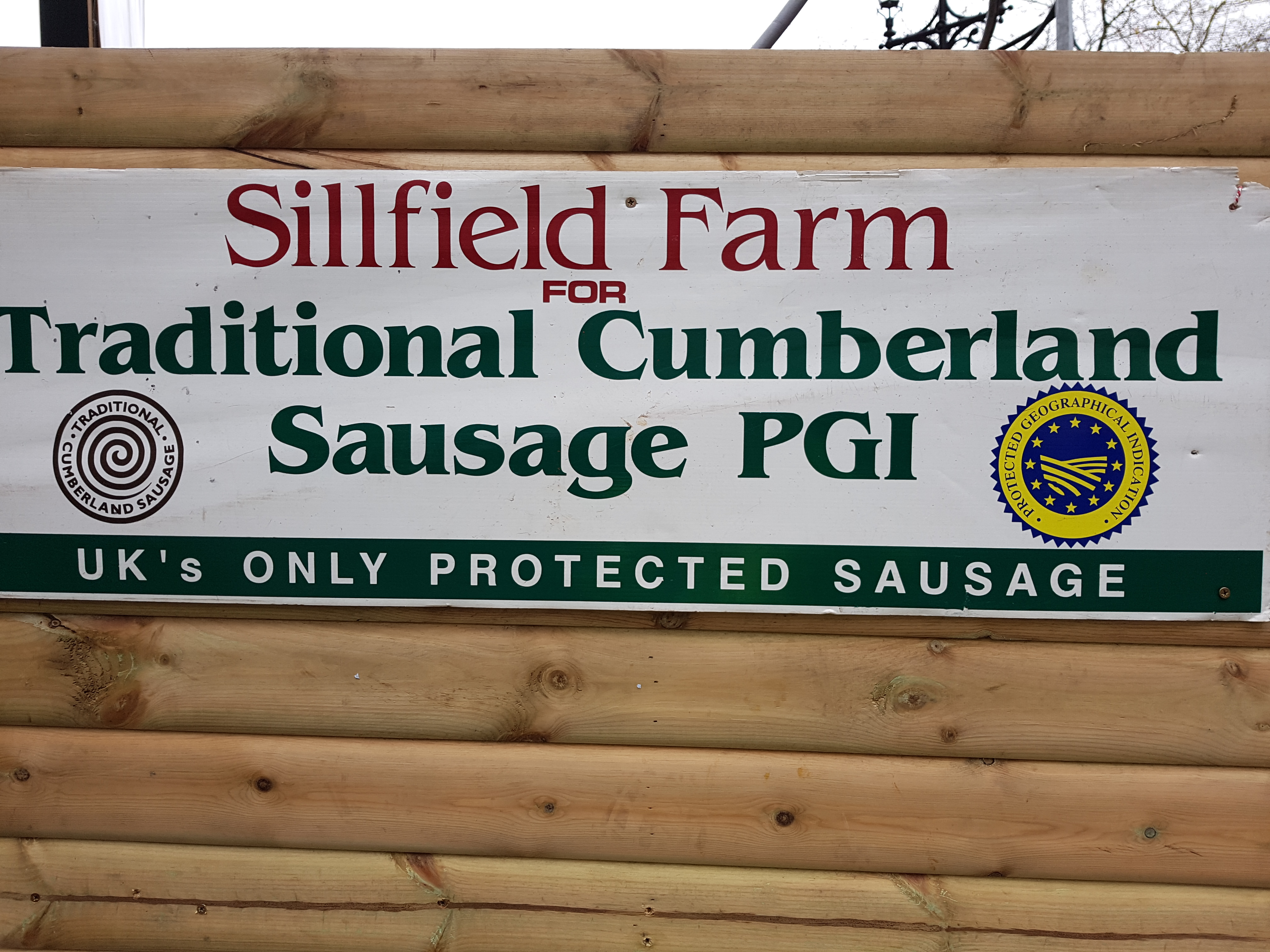 Advert celebrating the UK's only protected sauage